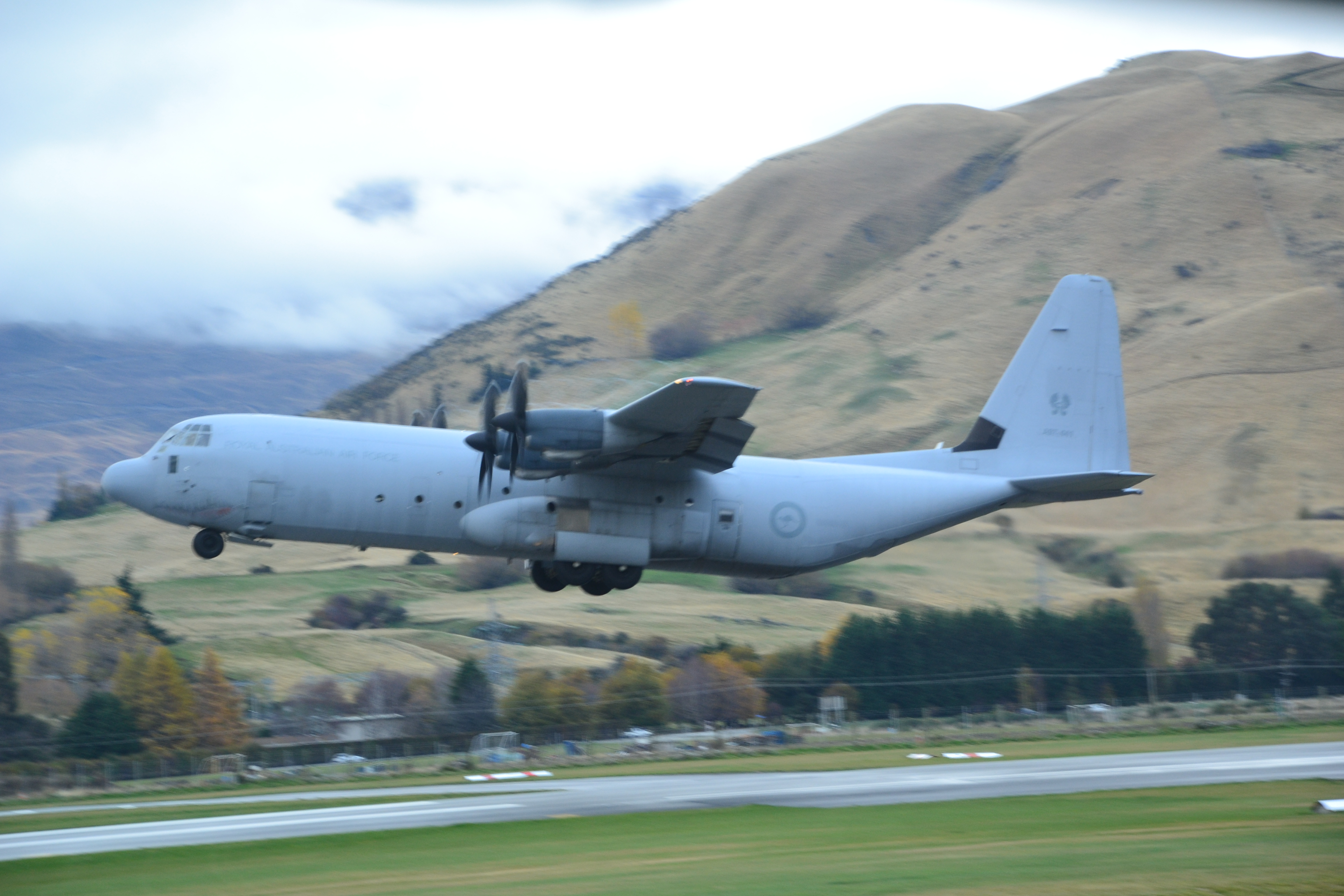 RAAF Herc doing circuits and low level mountain flight training in Queenstown, taken from a Cessna Caravan taxxing out for take off